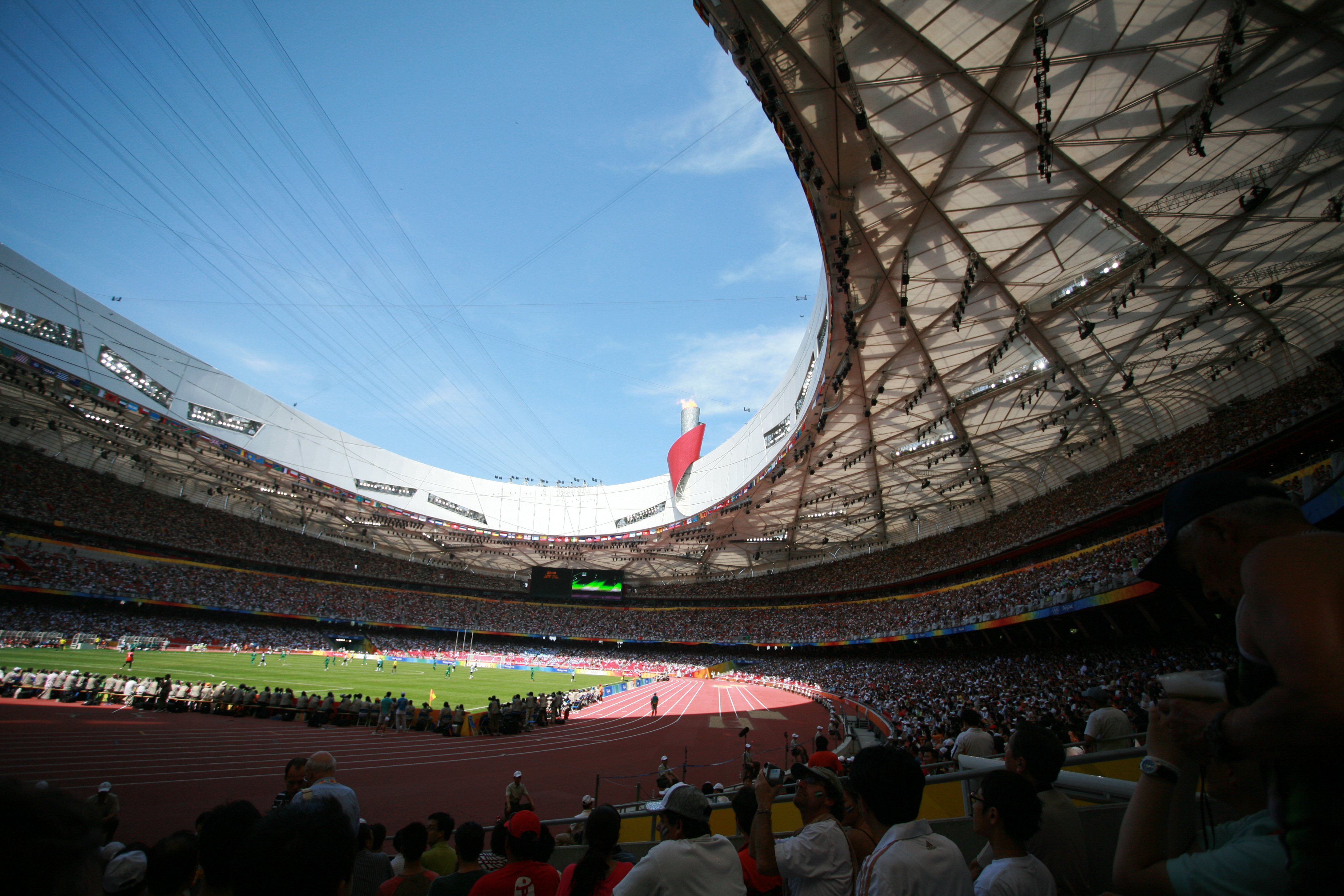 A view of the roof and track of the Beijing National Stadium during the 2008 Summer Olympics